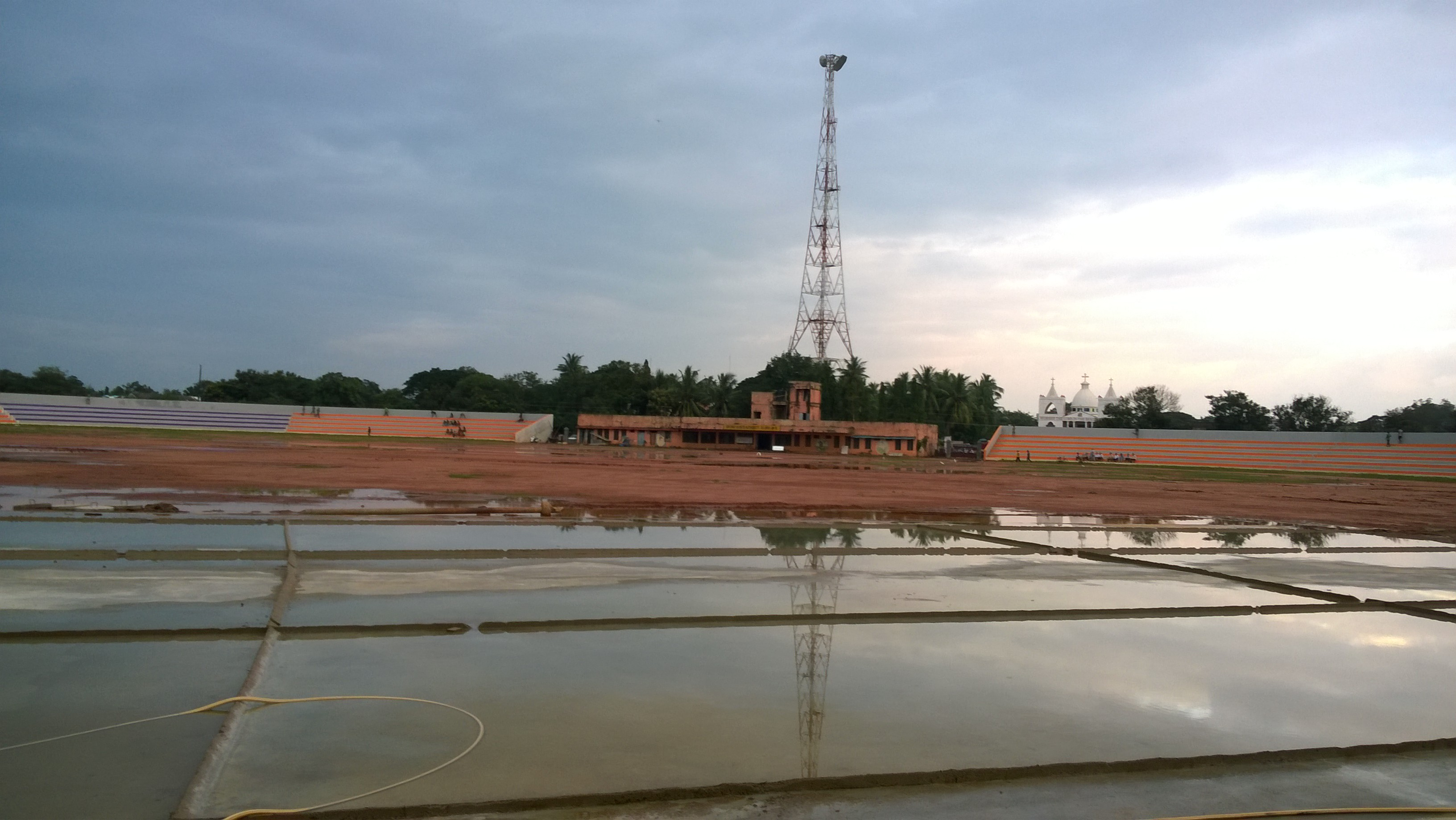 ASR STADIUM Near Railway Station